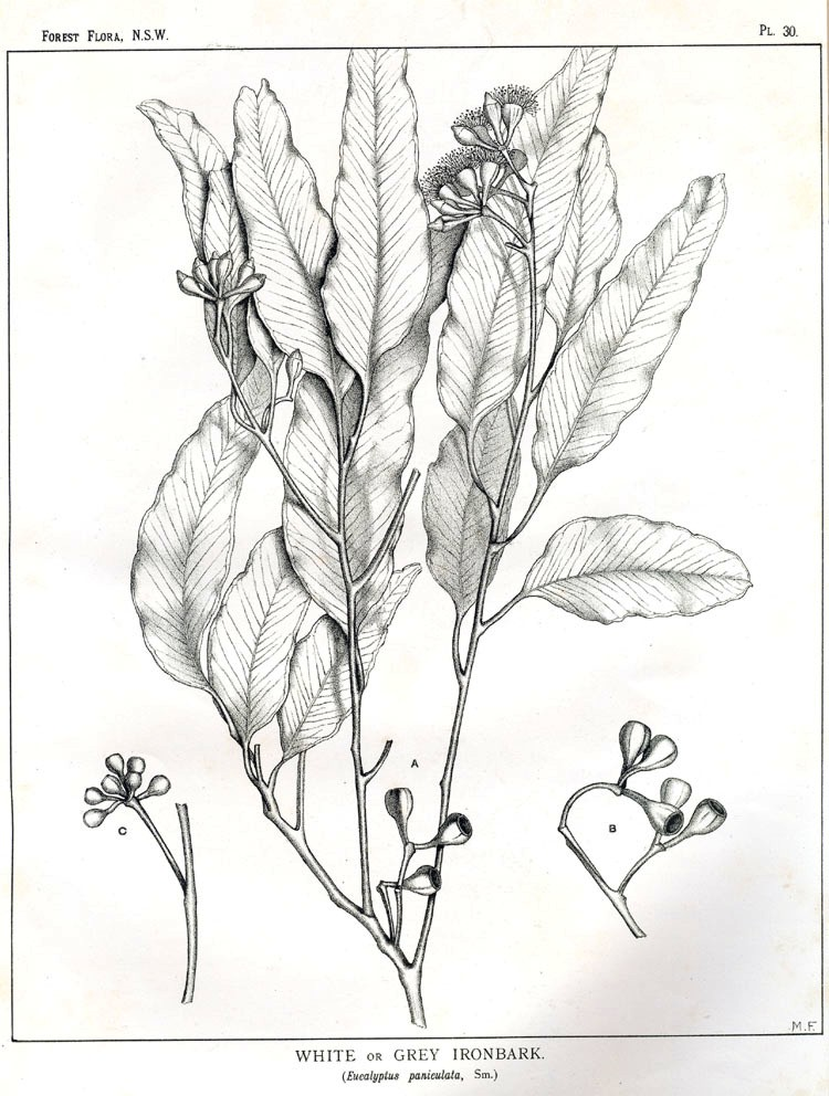 White or Grey Ironbark, Eucalyptus paniculata Sm., Plate 30 from Forest Flora of New South Wales by by Joseph Henry Maiden (1859–1925)